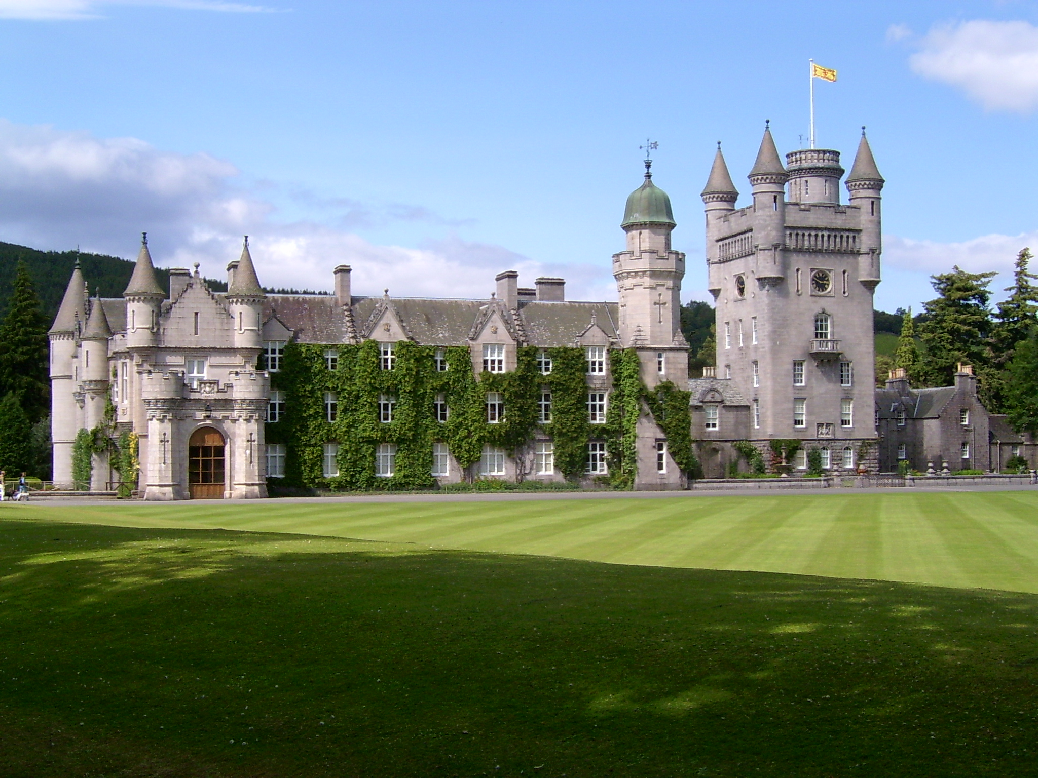 Balmoral Castle. The Royal Standard of Scotland flies over it.